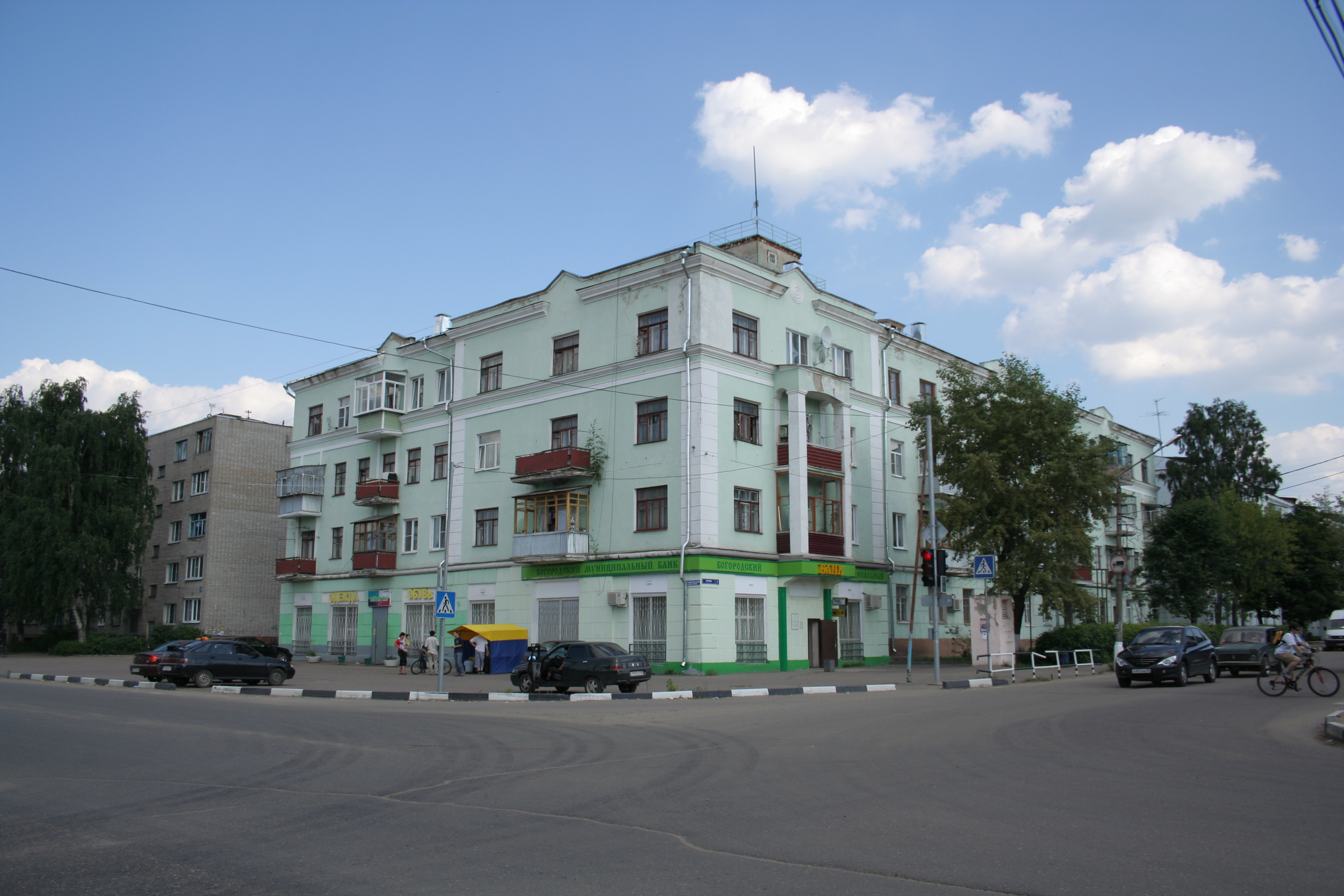 A street in Staraya Kupavna, Moscow Oblast, Russia